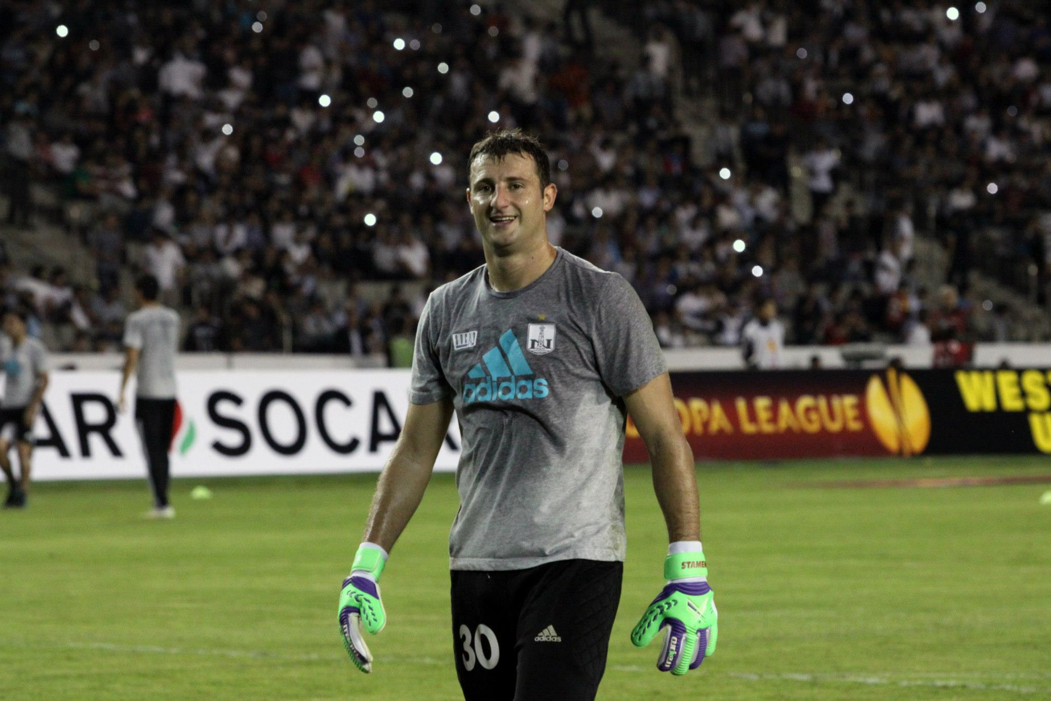 UEFA Europa League 2012-10-04 Saša Stamenković before the match Neftchi Baku-Inter Milan.